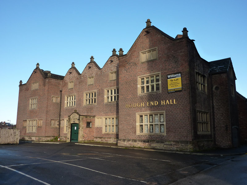 Photograph of Hough End Hall, Chorlton-cum-Hardy, Manchester, England